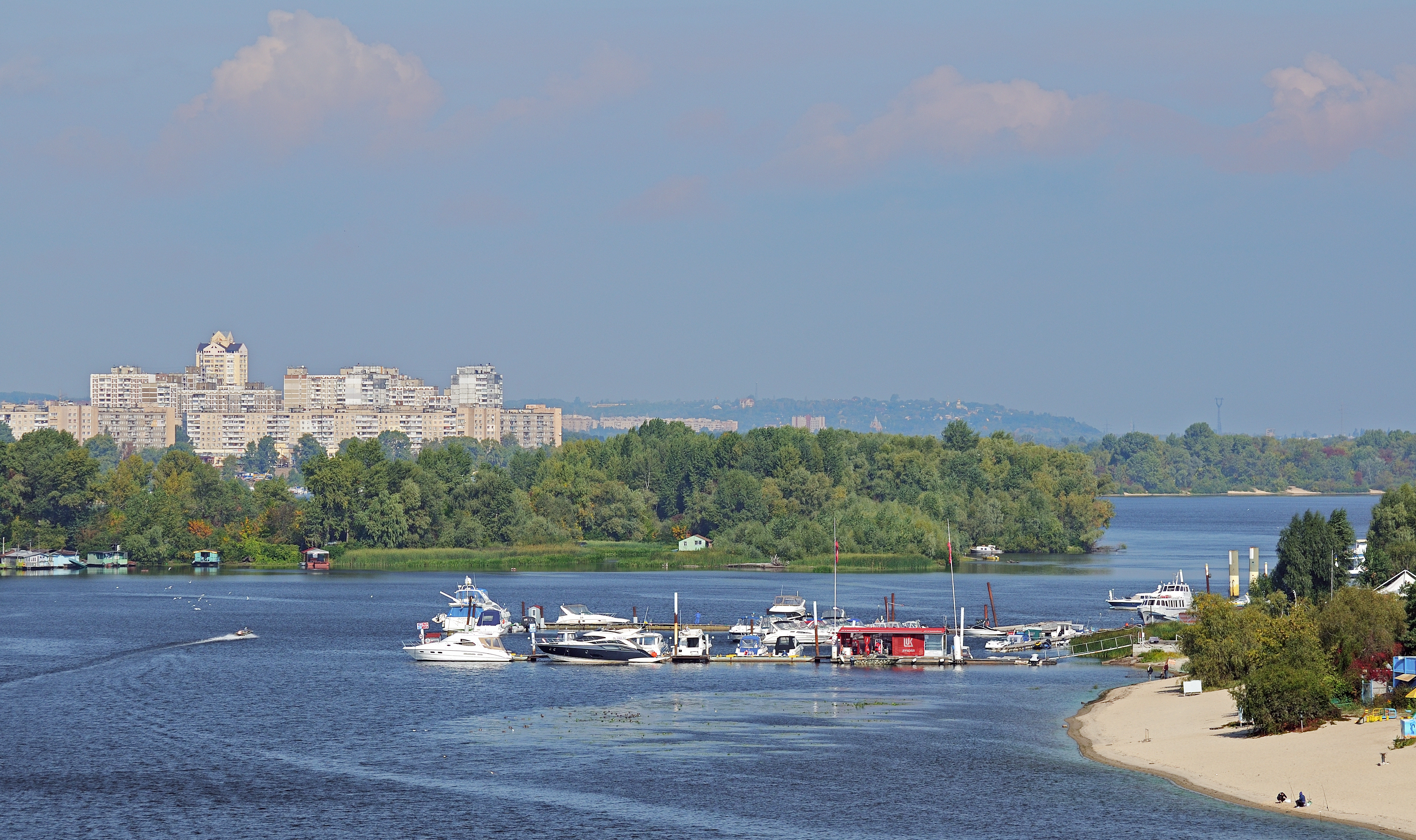 View of the Dnieper River from the North Bridge. Kiev, Ukraine